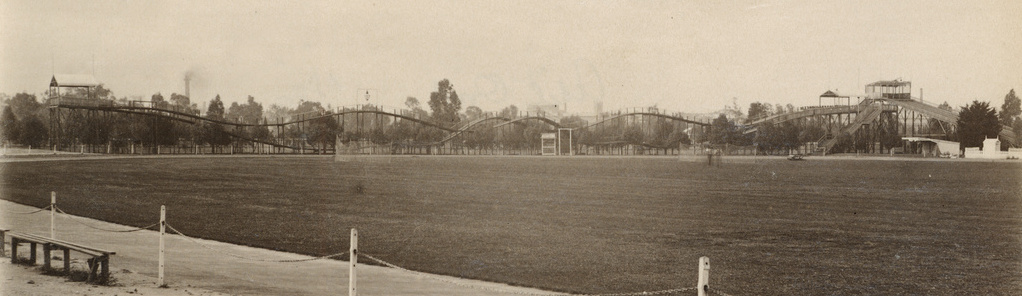 Photo of the Adelaide Oval Switchback rollercoaster from 1889 taken by Ernest Gall.